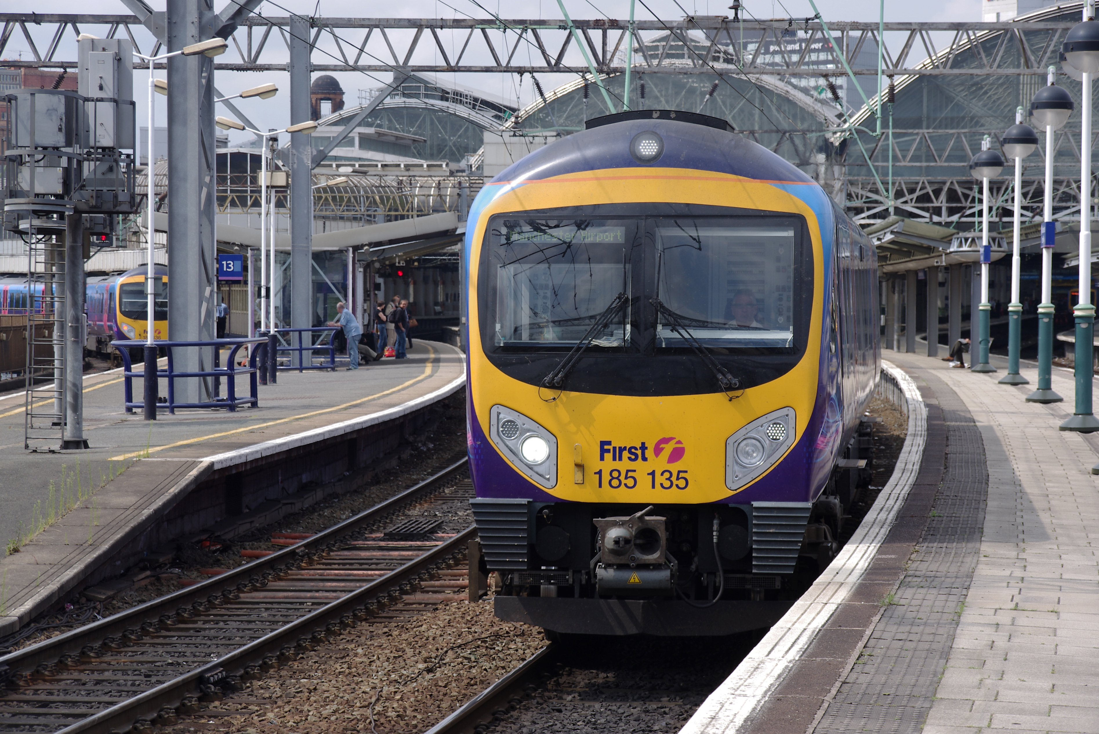 First TransPennine Express Desiro/Pennine DMU 185135 departs Manchester Piccadilly with a North Transpennine service to Manchester Airport.